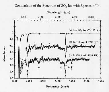 The composition of ices on other bodies in our Solar System can be determined by comparing the infrared spectra of laboratory ices with the infrared spectra of these objects taken using telescopes.